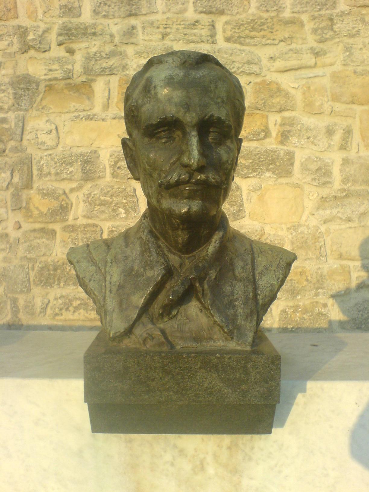 Monument of Ivan Milutinovic in Belgrade.